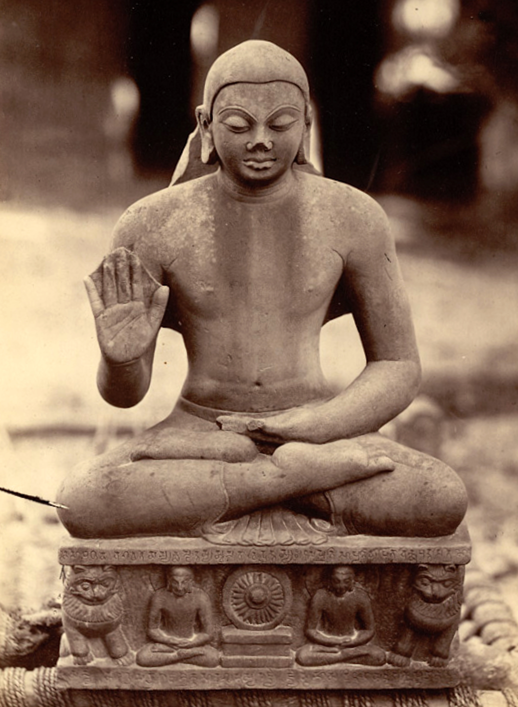 Seated Buddha Mankuwar Allahabad District UP India Cunningham on the discovery, inscription